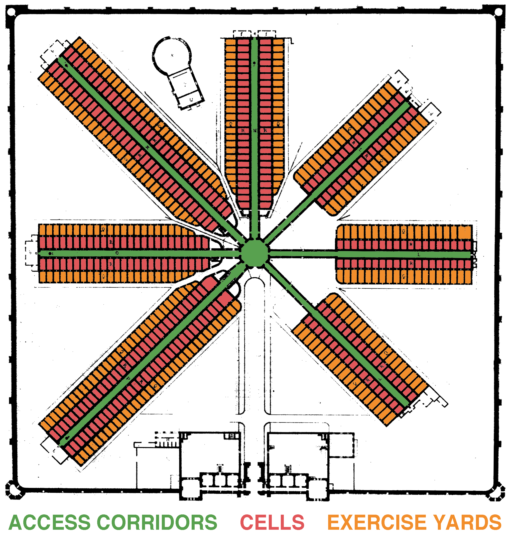 The 1836 floor plan of the Eastern State Penitentiary in Philadelphia, Pennsylvania - with the function of each room color-coded in green (for access corridors), red (for cells), and orange (for exercise yards).